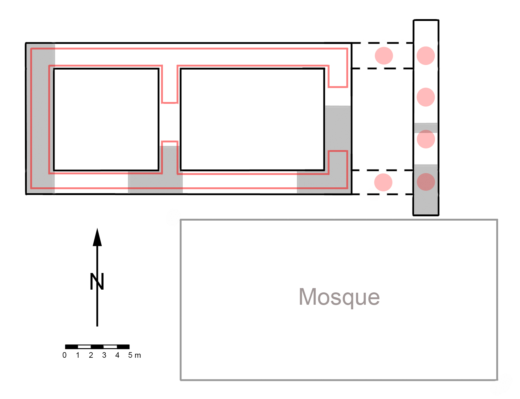 Floor plan of the temple of Artemis (gray: extant foundations; pink:supposed floor plan with orientation to the east)